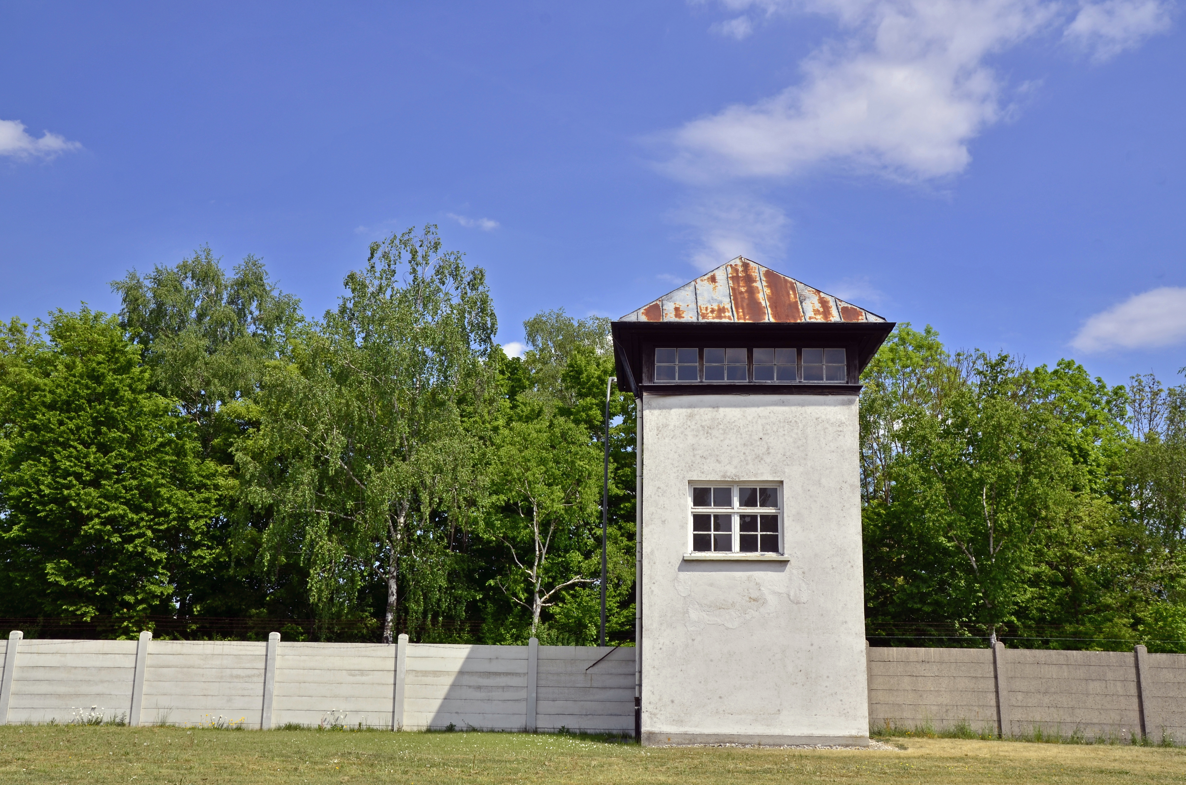 Concentration Camp Dachau, Tower (East side)